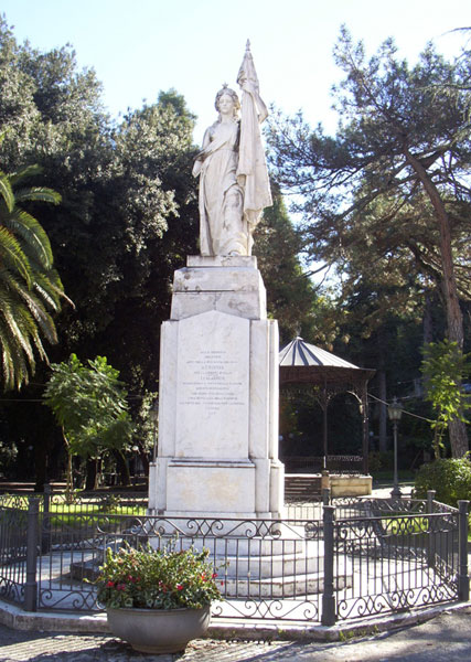 Cosenza. Piazza XV Marzo at the entrance to Villa Vecchia: Statue of Italia